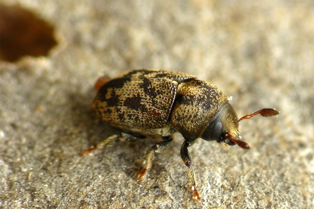 Hylesinus varius